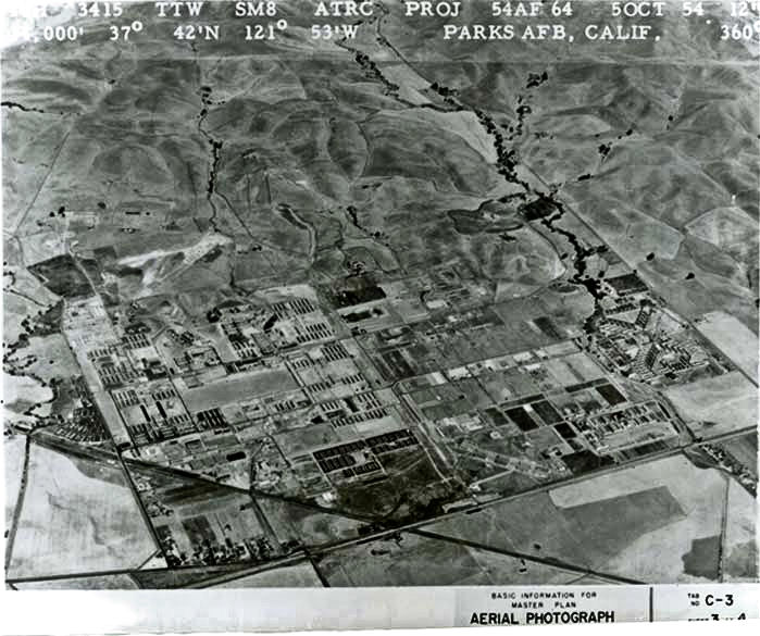 Aerial photograph of Parks Air Force Base, California